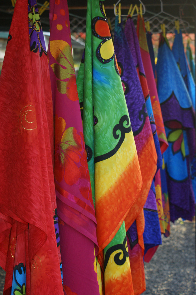 Colourful pareu (a type of sarong) on display in Rarotonga, Cook Islands.